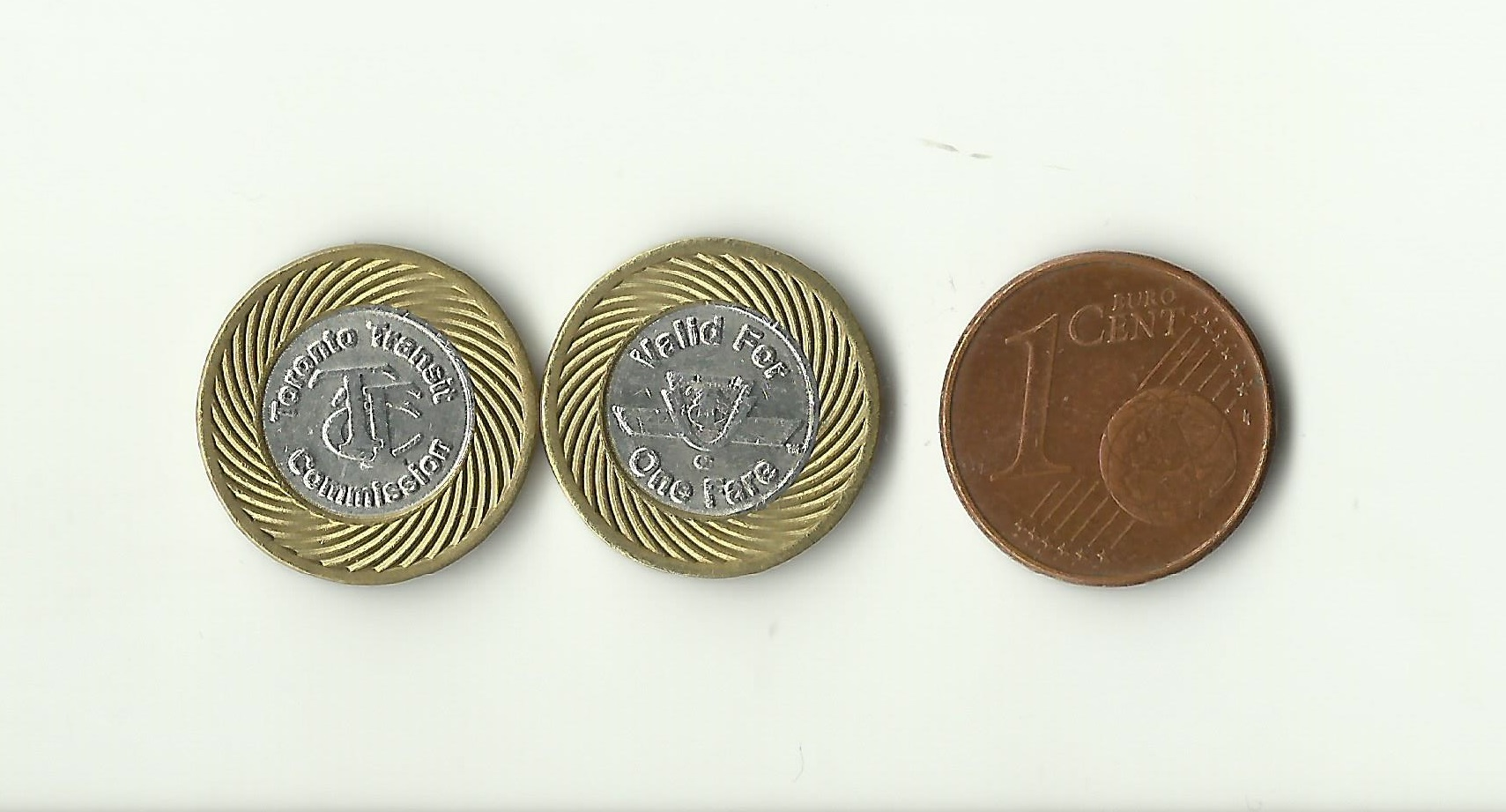 Two so called “Token” for the Toronto Subway. For comparing, a German 1 Eurocent coin is also visible